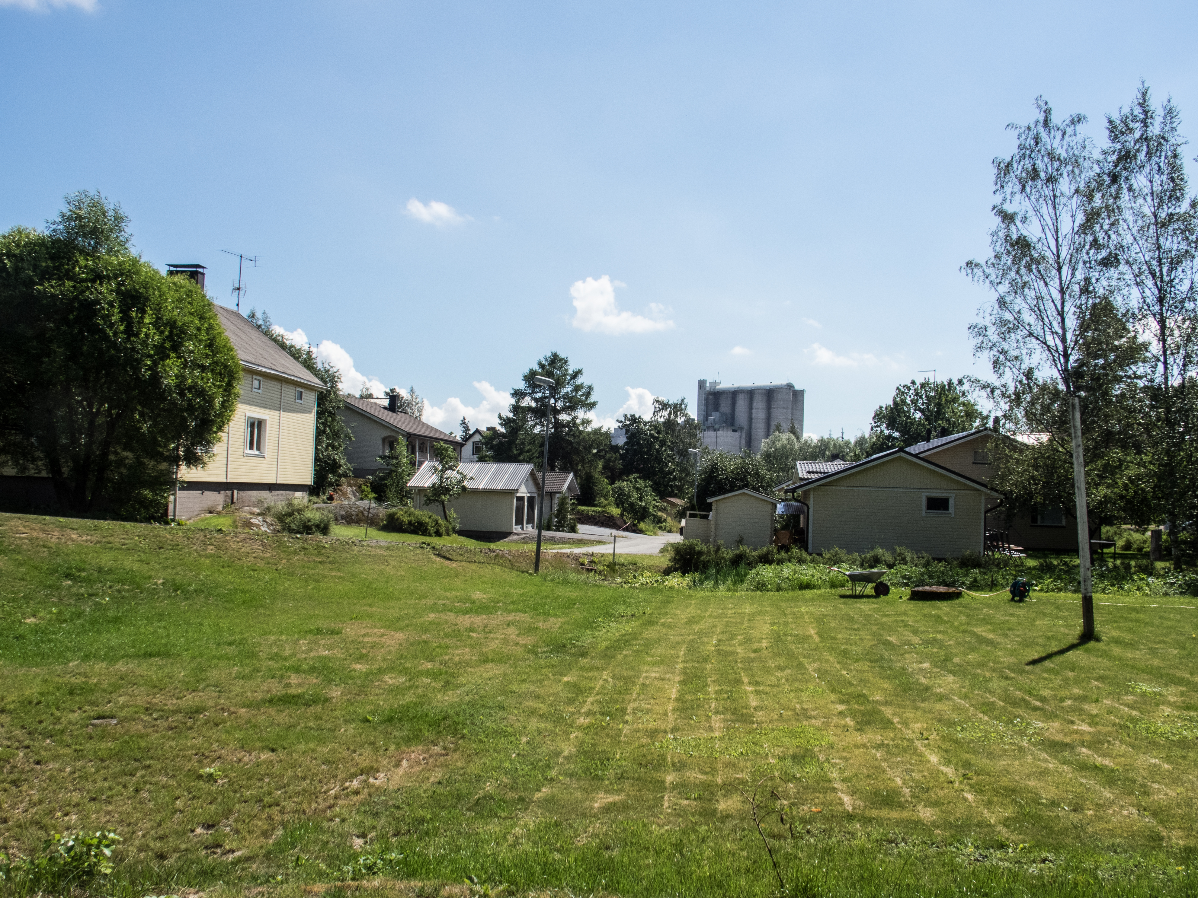 Pirilä, a suburb of Raisio, Finland, is located next to the Raision Tehtaat food factories seen in the background.